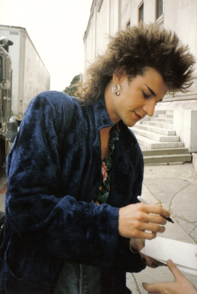 Subject: Daniel Ash of Love & Rockets outside the Kaiser Convention Center, Oakland, California, USA. Original 35mm photograph scanned; First posted at